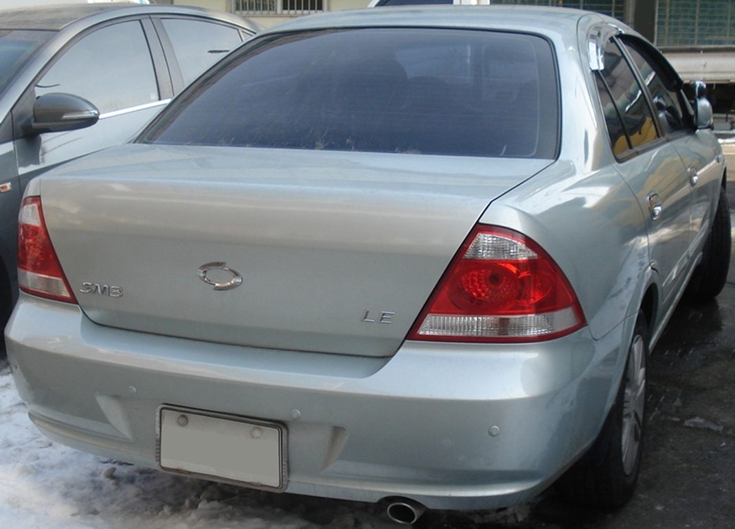 Renault Samsung SM3 New Generation